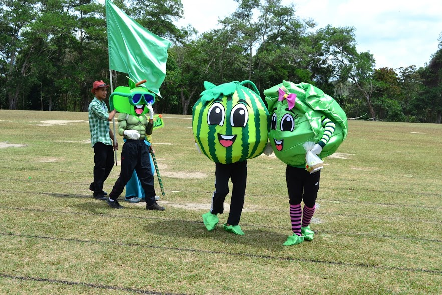 SUKAN 8